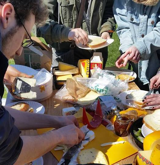 Students gather at a weekly Cheese Club meeting on Purchase College's Great Lawn to tantalize their taste buds.